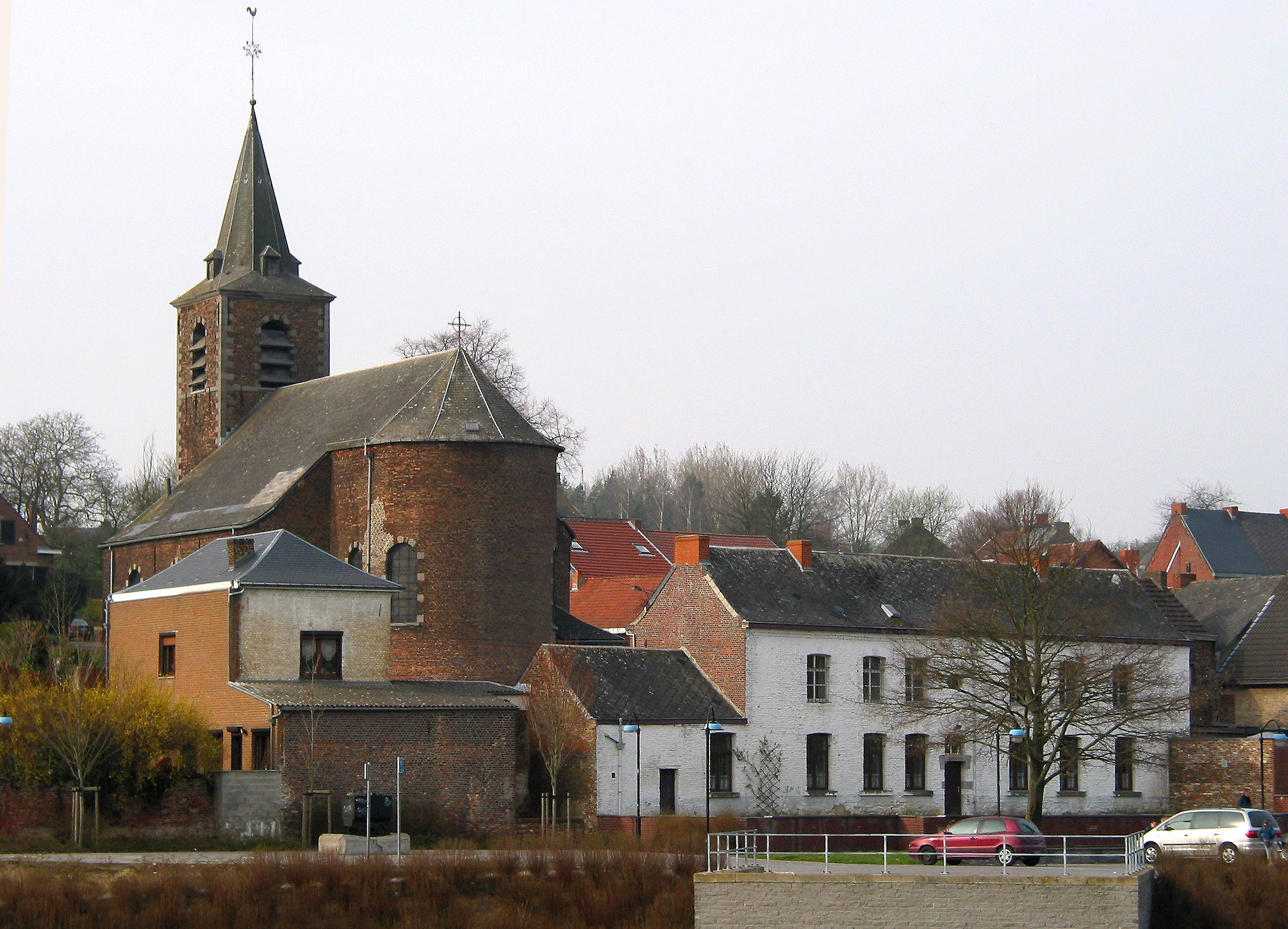 Thieu (Belgium), the Saint Gaugeriucus' church.